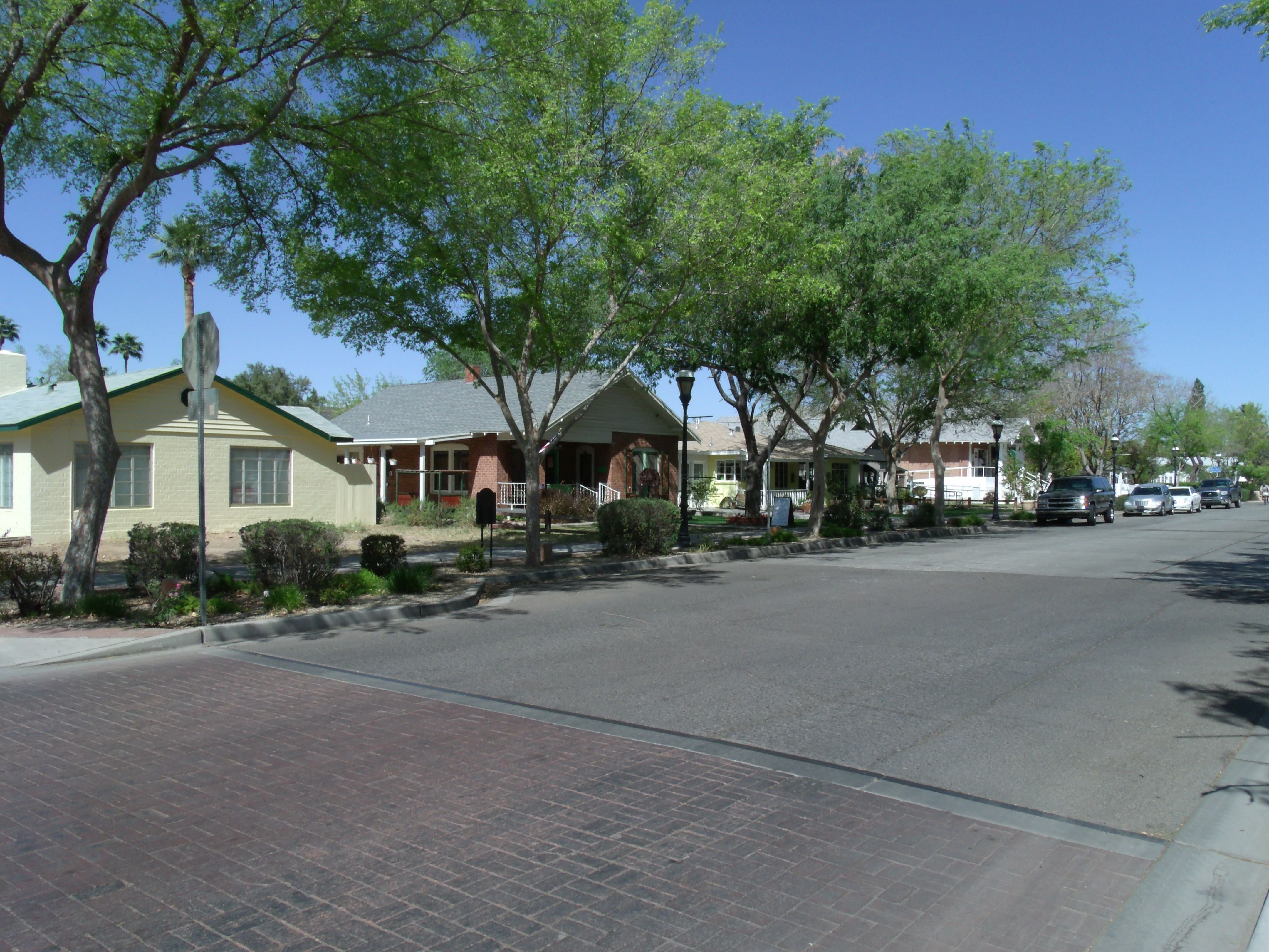 View of Historic (NRHP) Catlin Court District founded in 1914 in Glendale, Arizona. Listed in the National Register of Historic Places #92000680